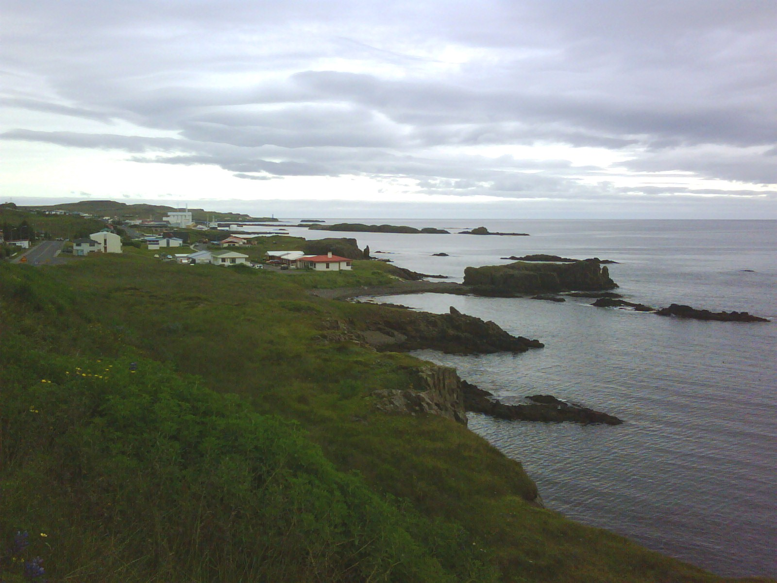 Vopnafjörður